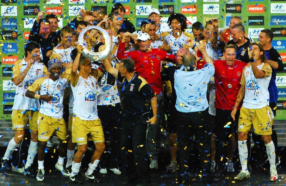 Newcastle United Jets celebrate their A-League grand final win.